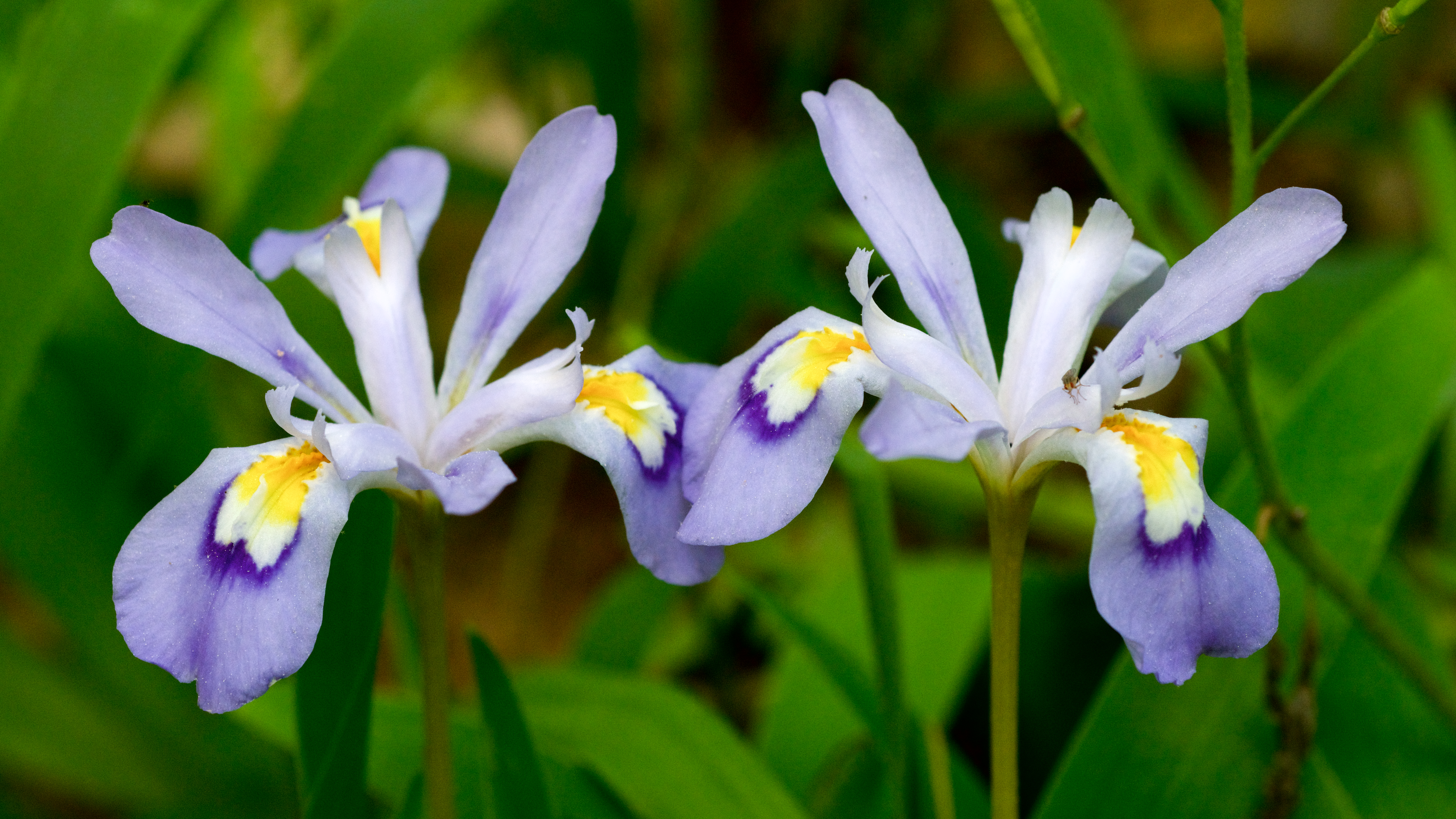 Species from eastern North America Common name: Dwarf Crested Iris